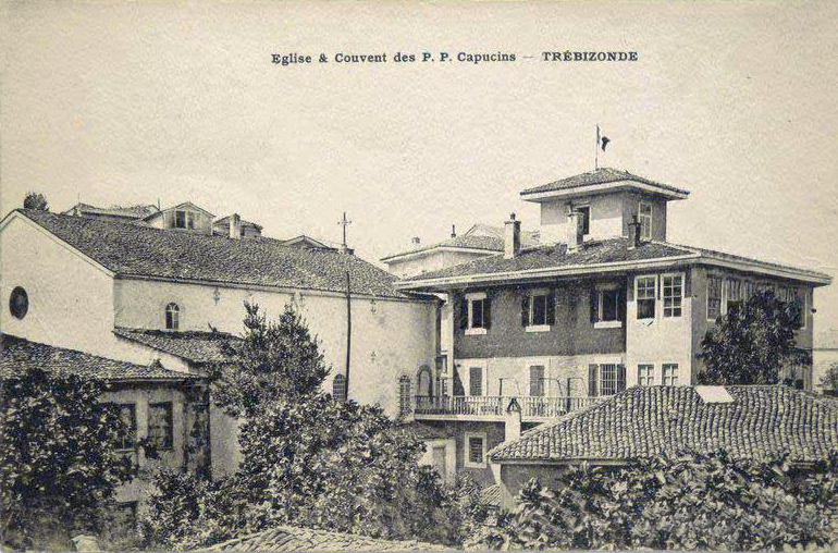 Postcard of Trebizond (Trabzon, Turkey)